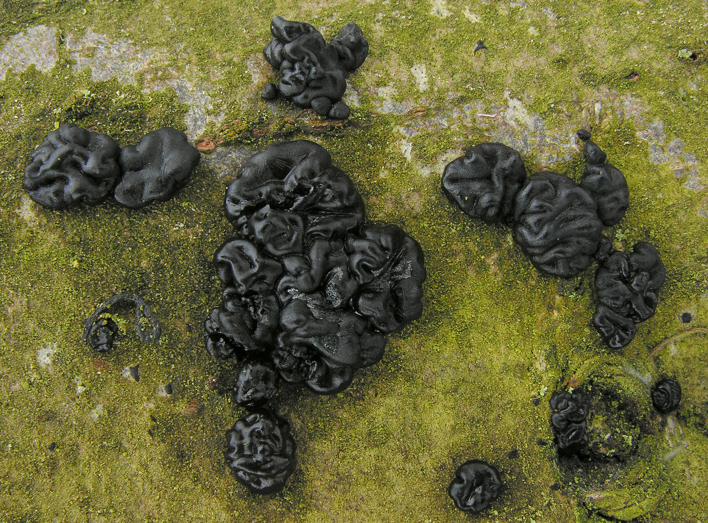 Witches Butter (Exidia nigrescens)